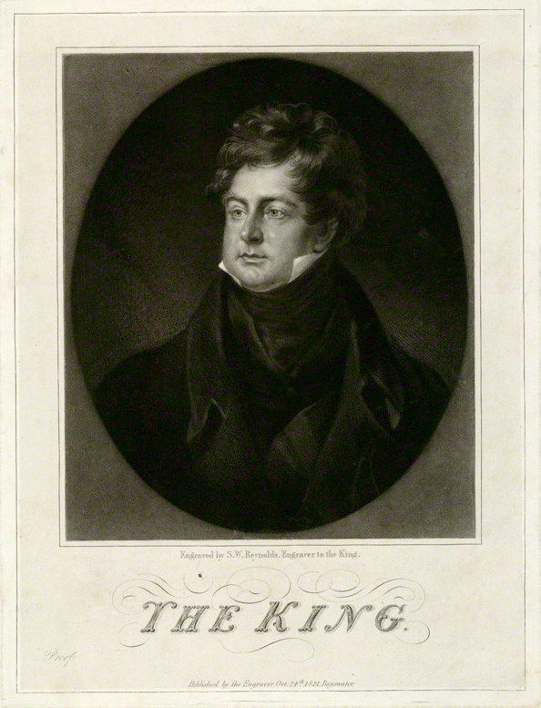 George IV of the United Kingdom] (1762-1830; r. 1820-1830)